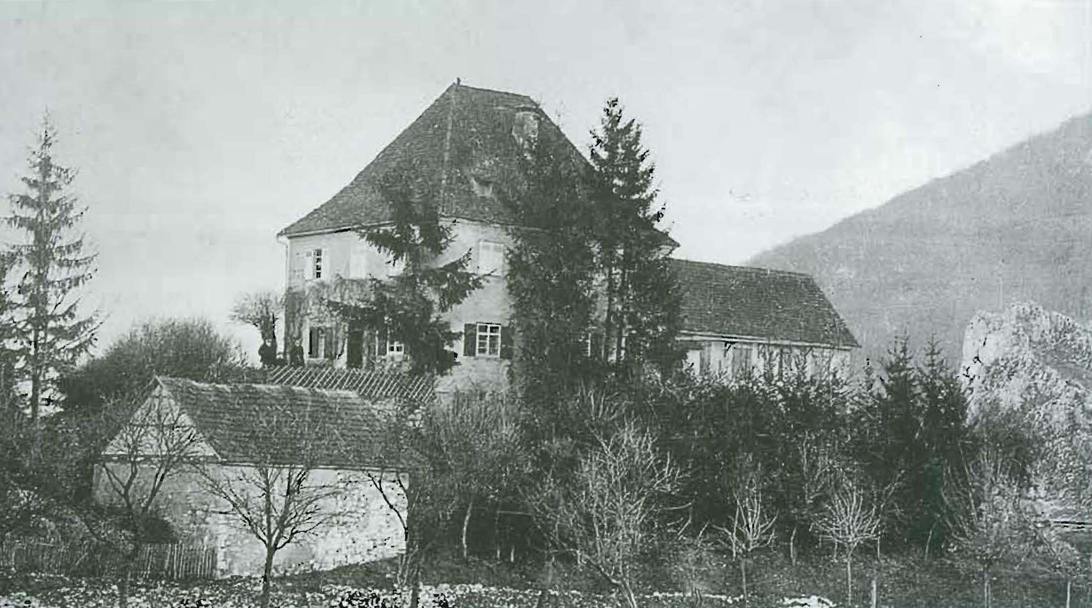 Small castle on the wind barrier in Schelklingen where Jakob Friedrich Sprandel from 1859 to 1878 managed a private maternity home; with Sprandel's family on the terrace